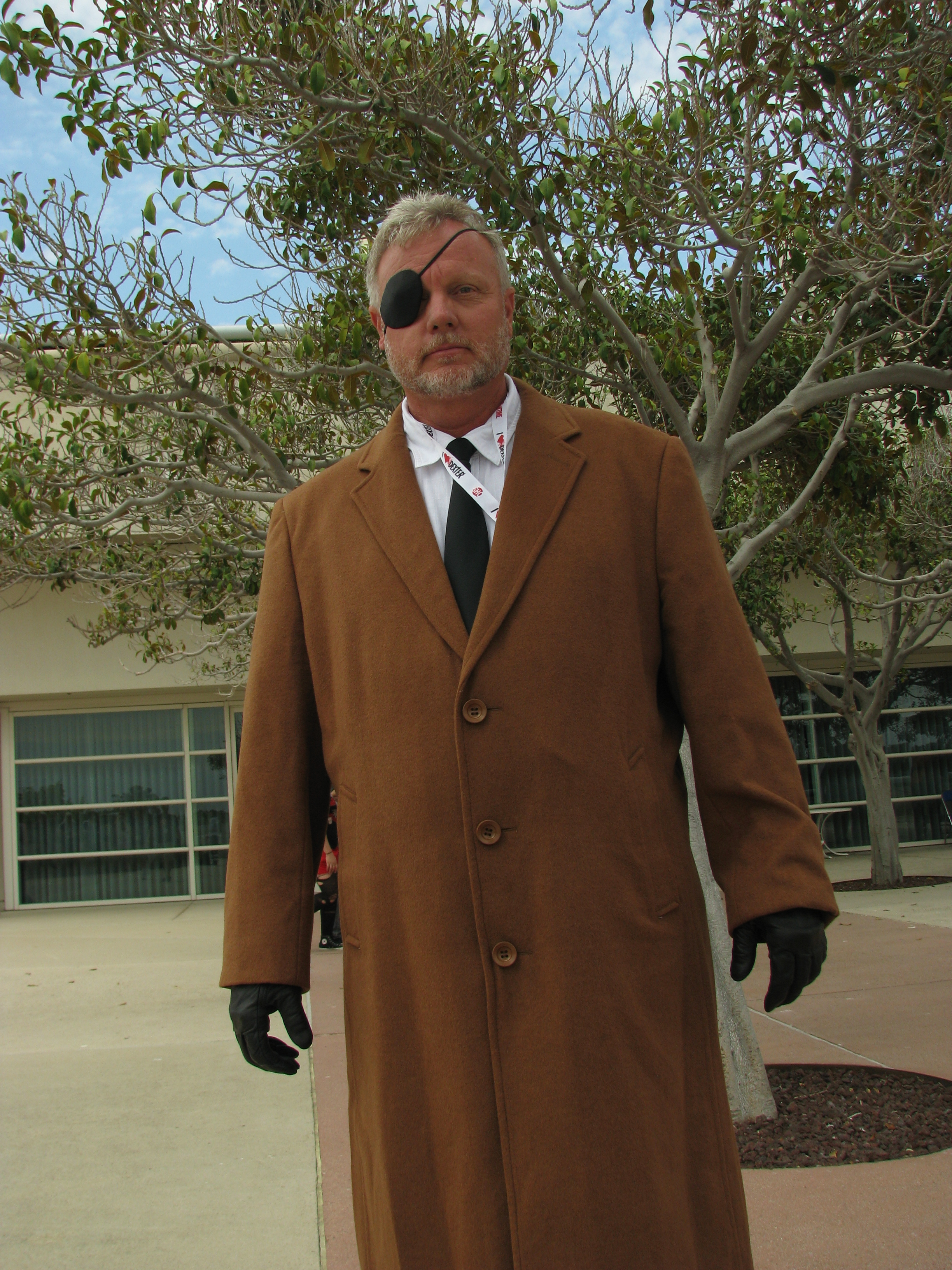 It's Big Boss from Metal Gear Solid 4!